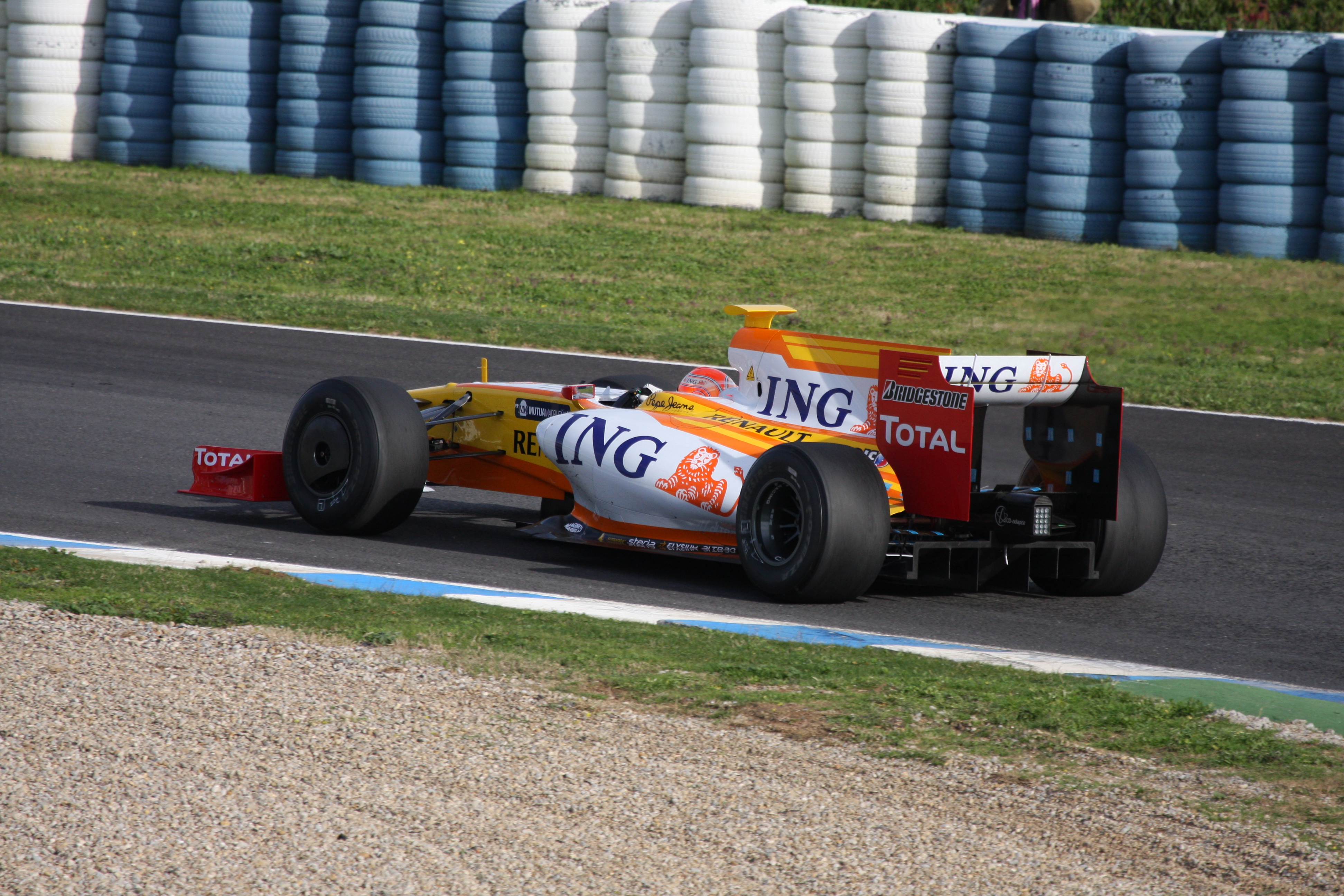 Nelson Piquet Jr in the Renault R29, F1 testing session, Jerez 10-Feb-2009